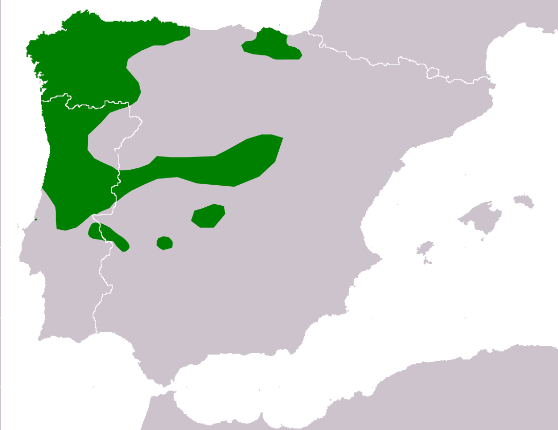 Rana iberica range map.